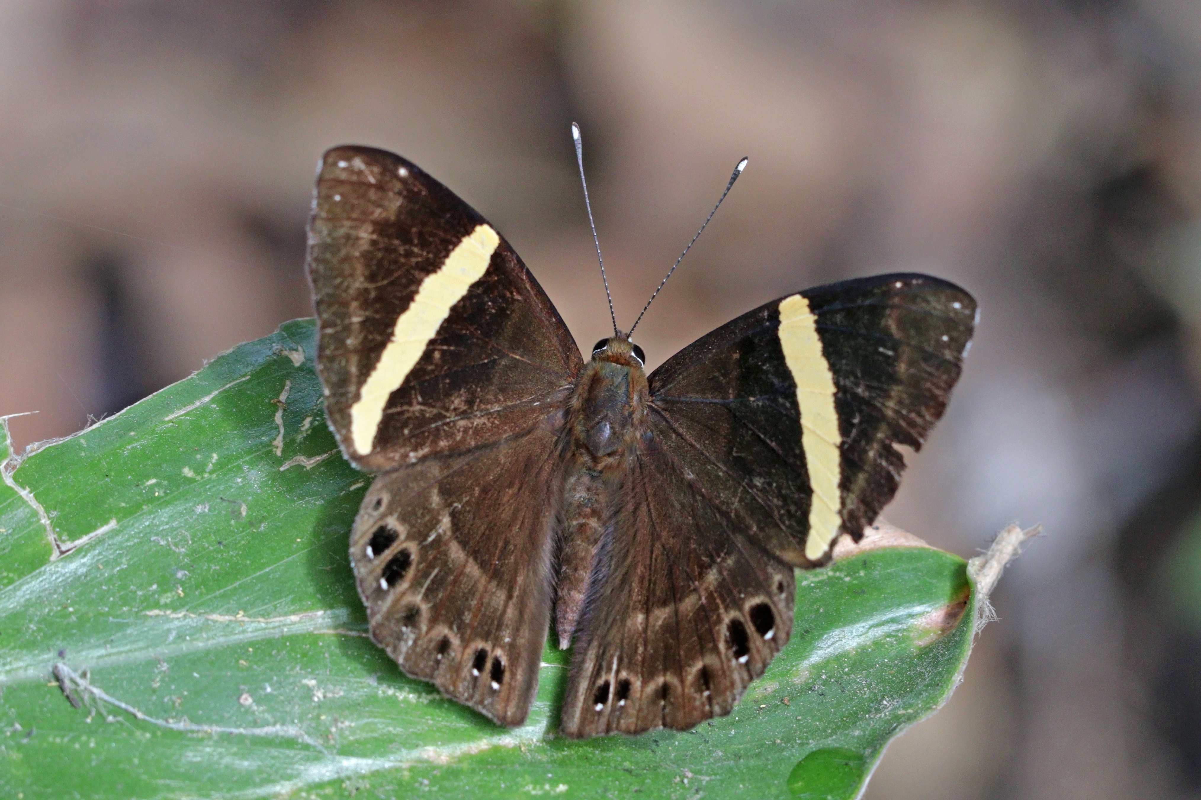 Dark judy (Abisara fylla fylla) male, National Botanical Garden, Godawari, Nepal